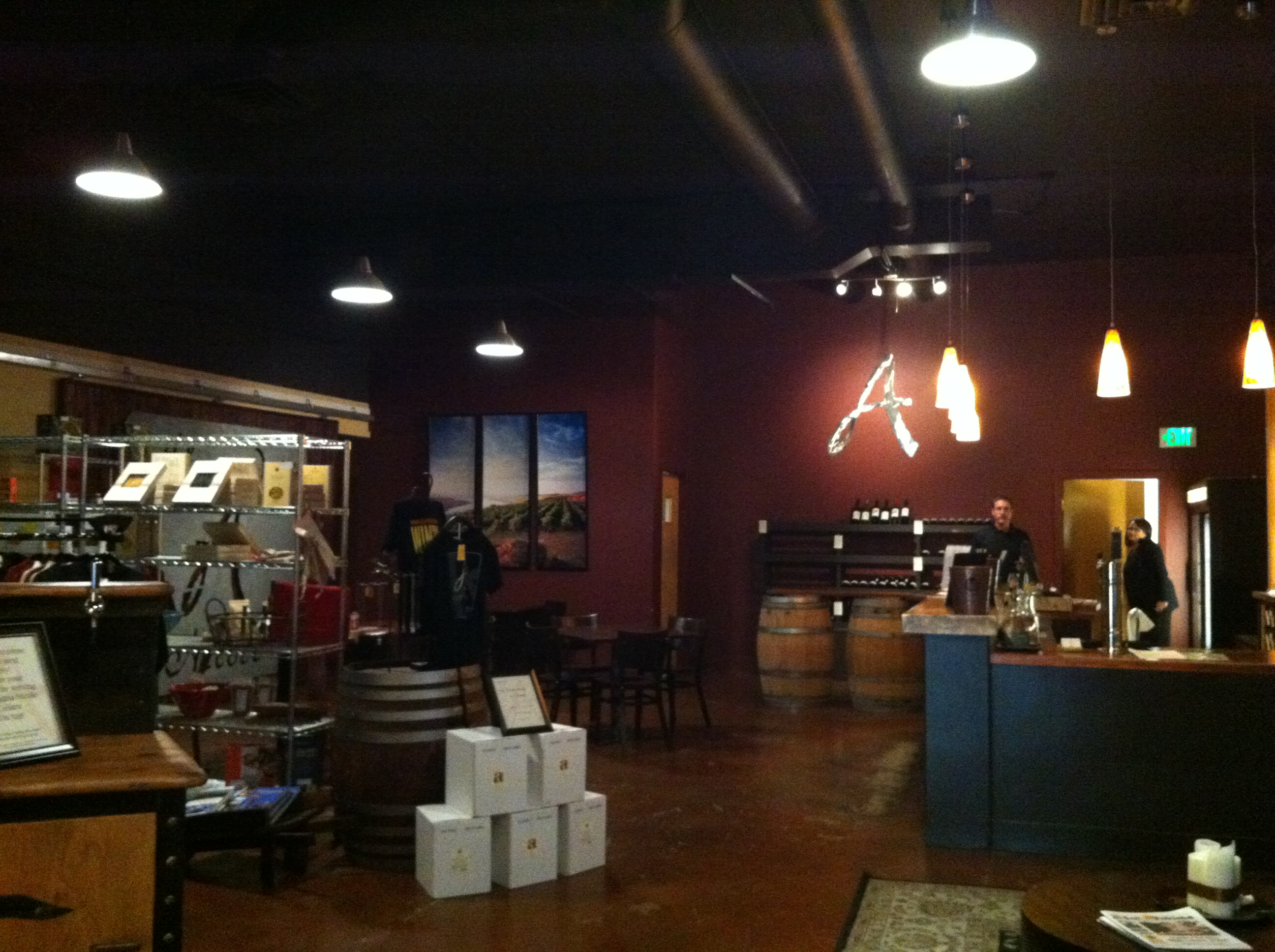 Inside of the Alexandria Nicole Cellars Tasting Room in Prosser, Washington